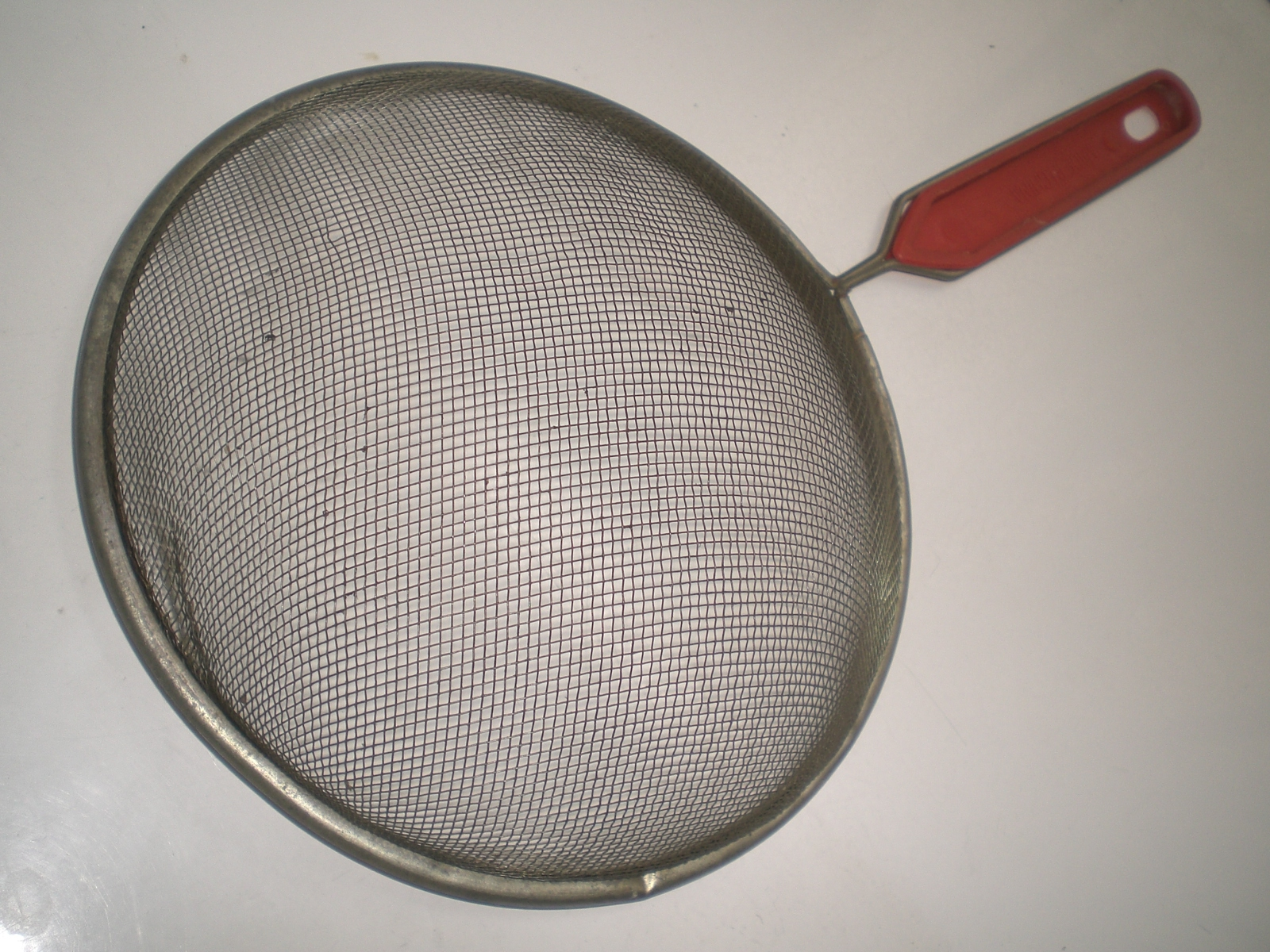 廚房用具